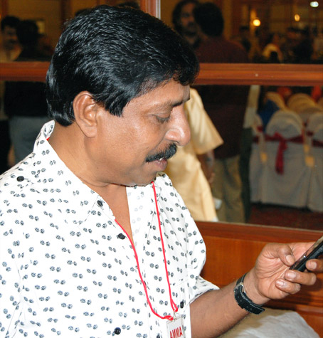 Sreenivasan